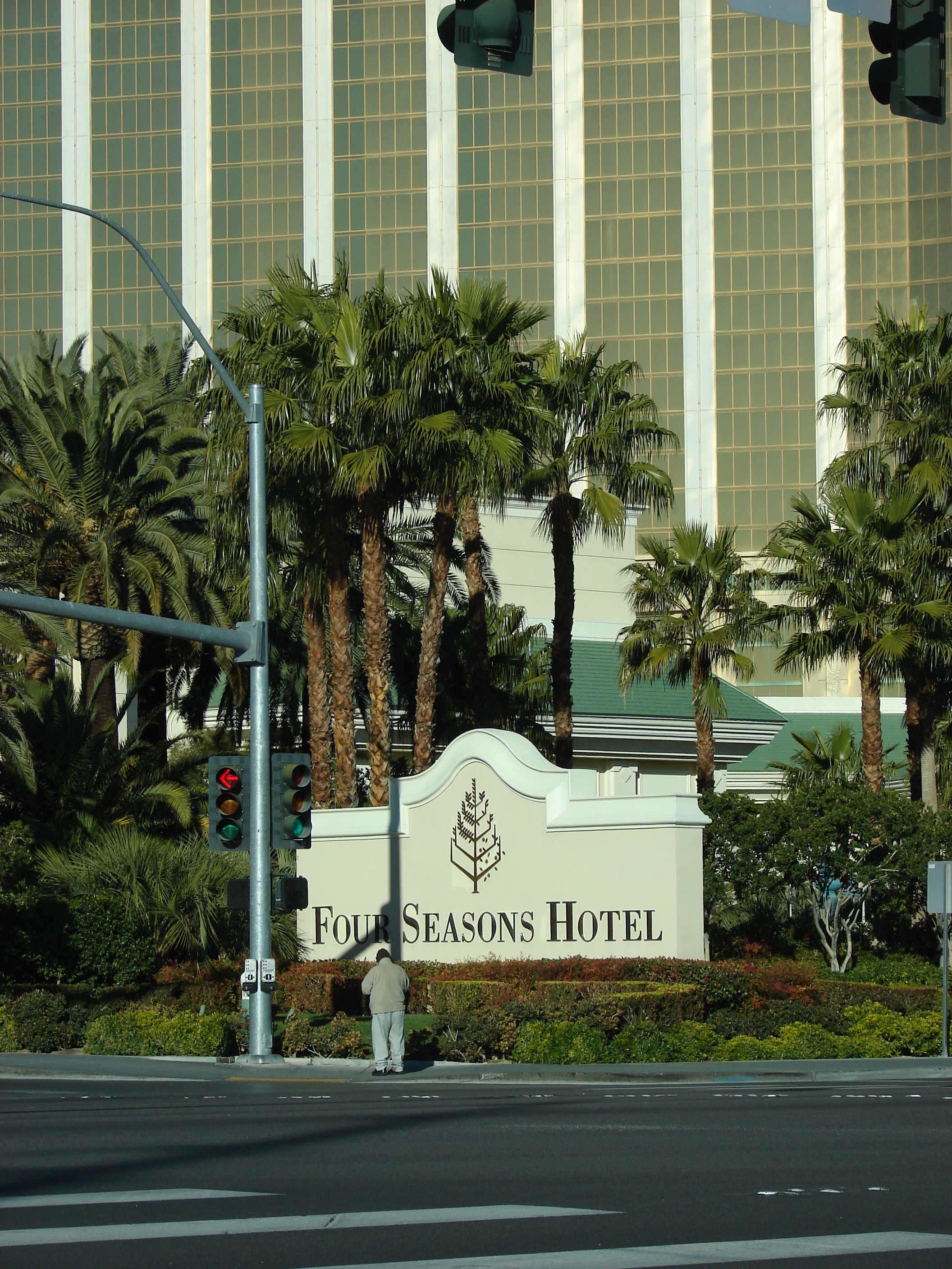 Washingtonia sp. (habit). Location: Nevada, Four Seasons at Mandalay Bay Las Vegas